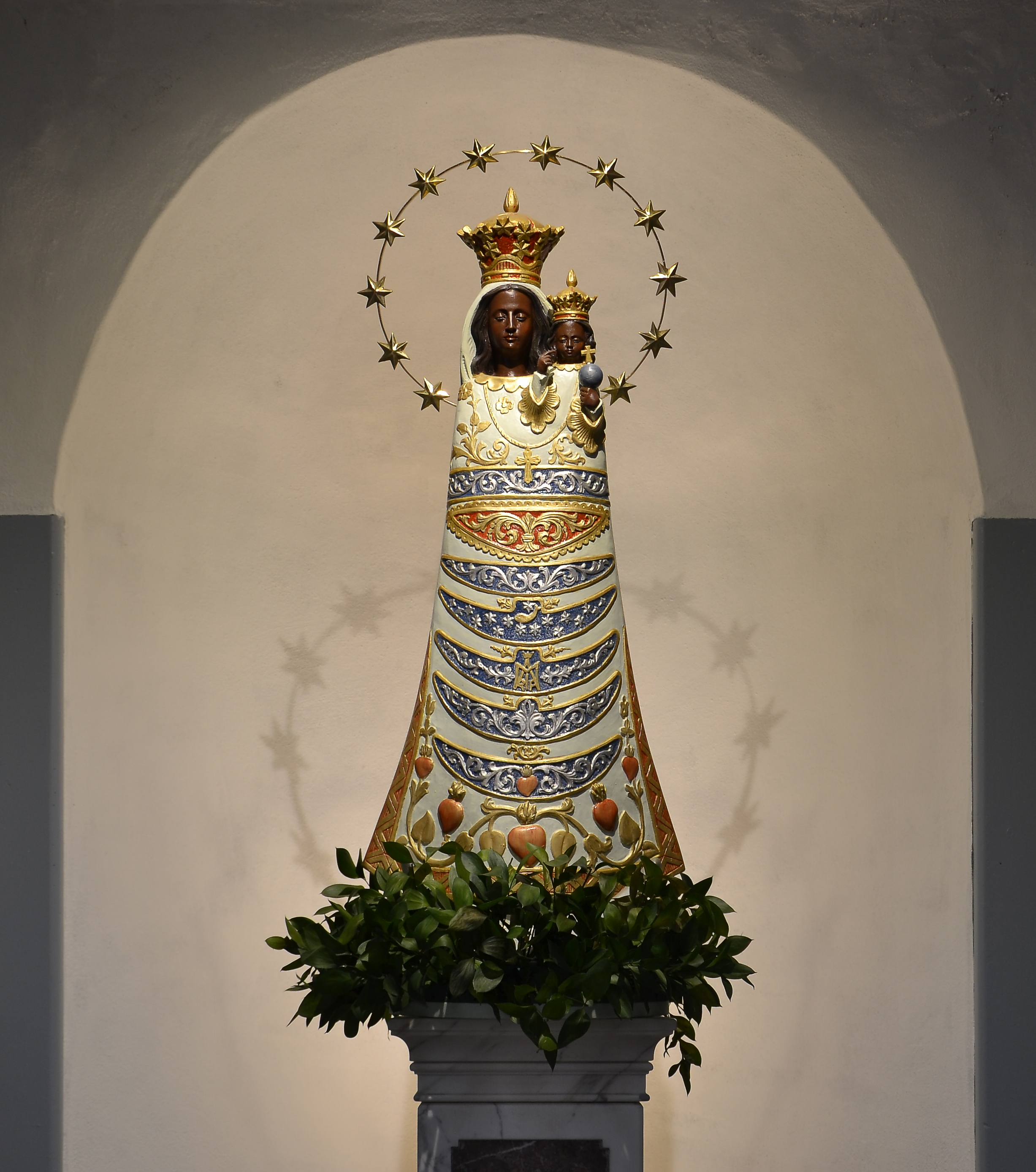 Black Madonna from Wrocław (Breslau), Silesia